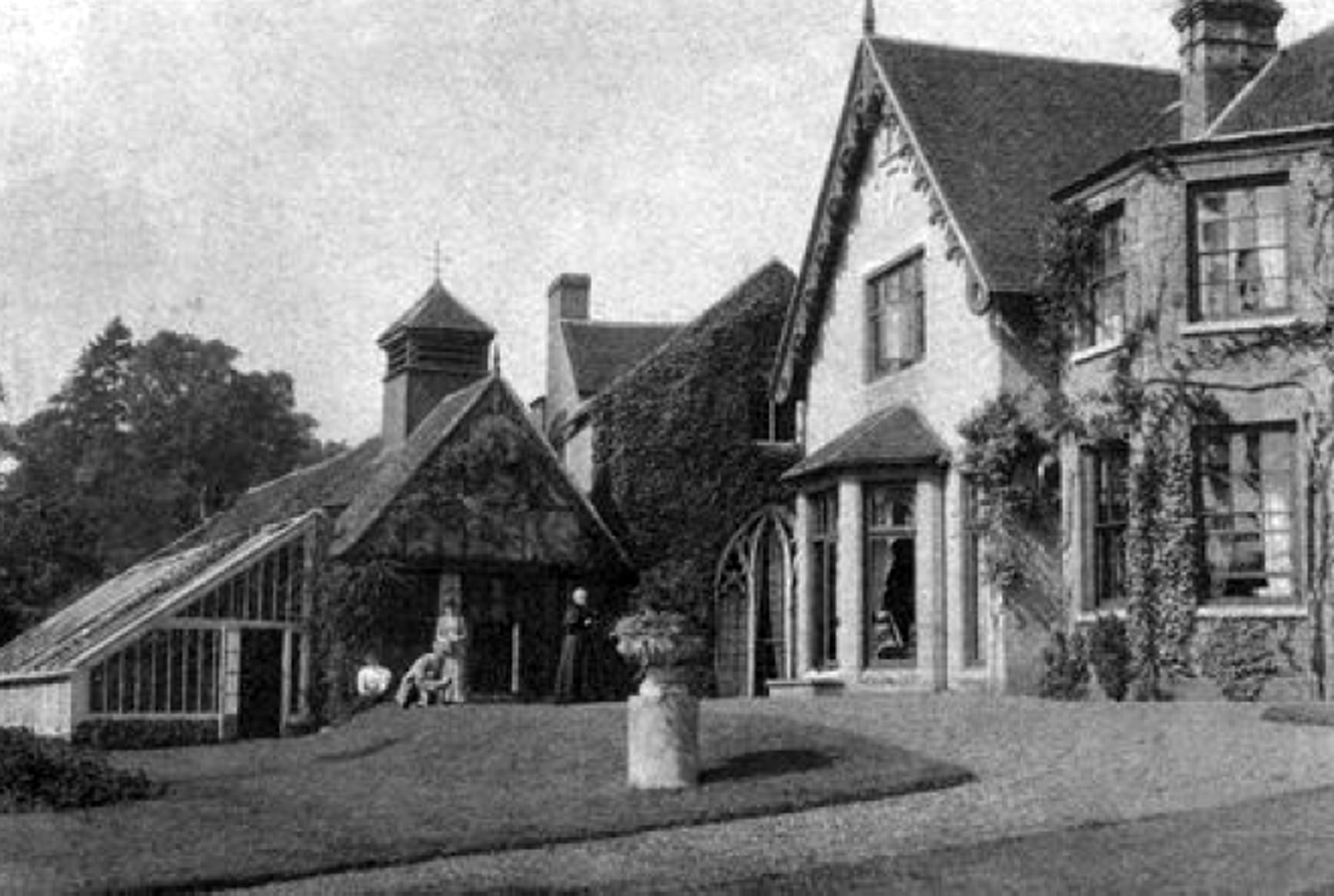 Croquet on the lawns of Flitwick Manor 1870